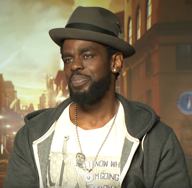 Mustafa Shakir on an interview for MTV regarding season 2 of Luke Cage